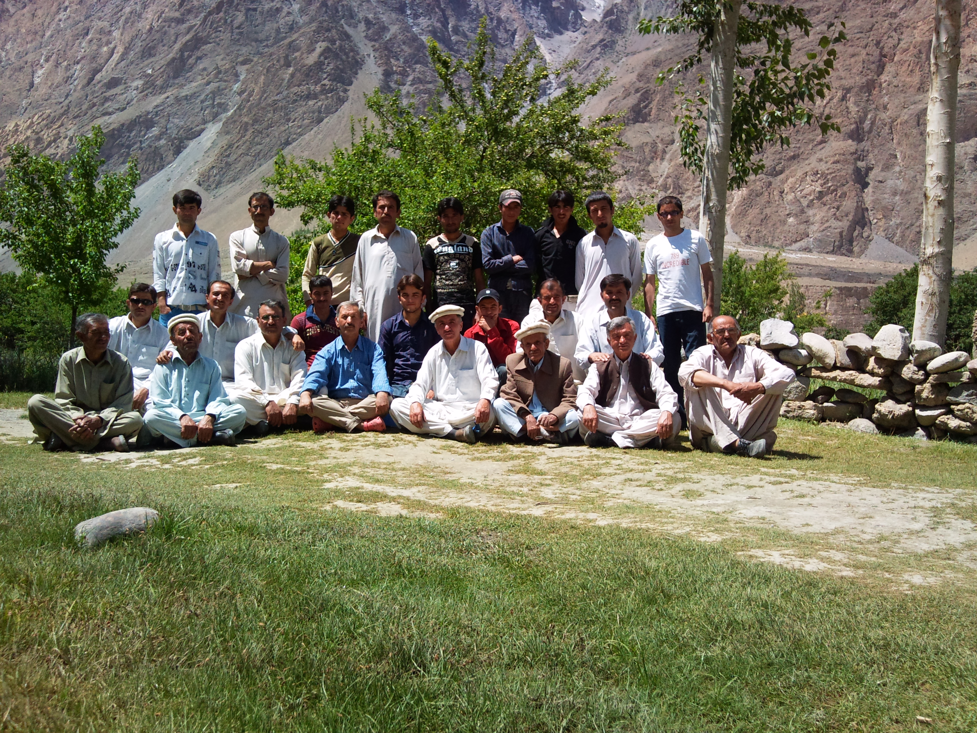 Gircha Elders and youth